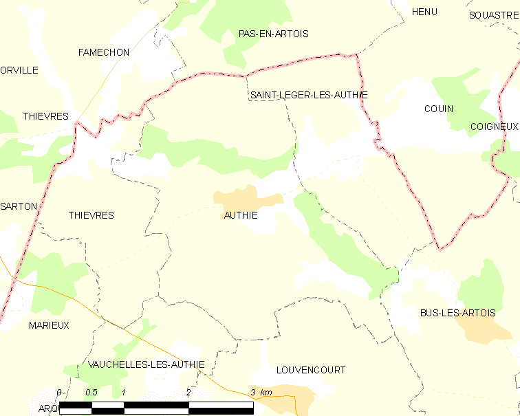 Map of French municipality Authie